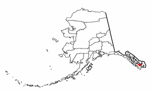 Adapted from Wikipedia's AK borough maps by Seth Ilys.